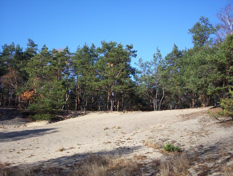 Dunes in Międzyborów, Poland.